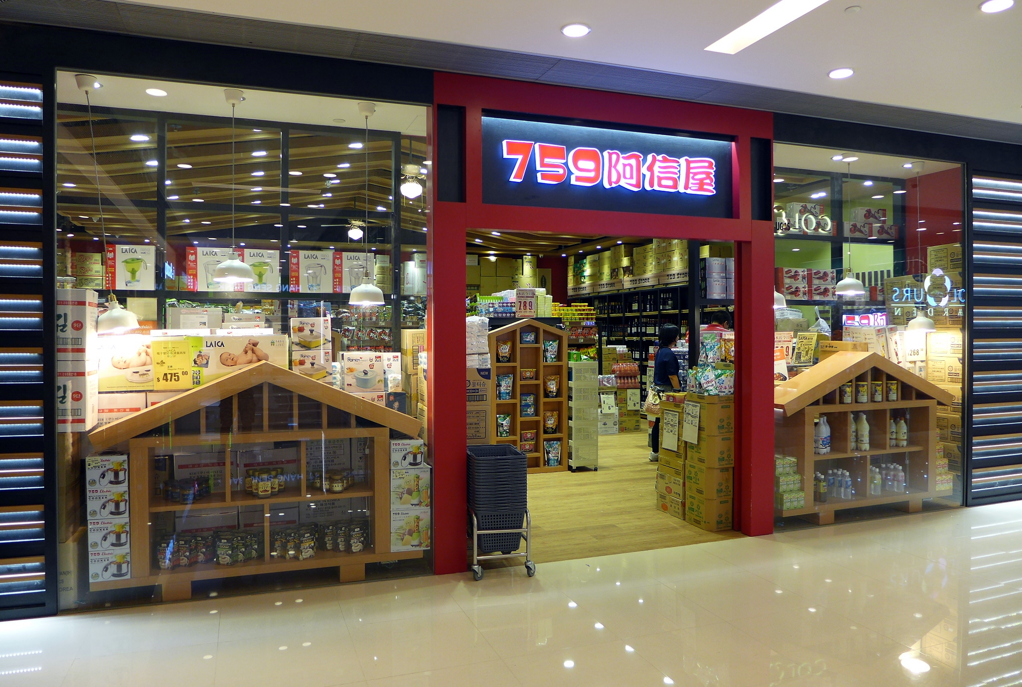 759 Store in Olympian City